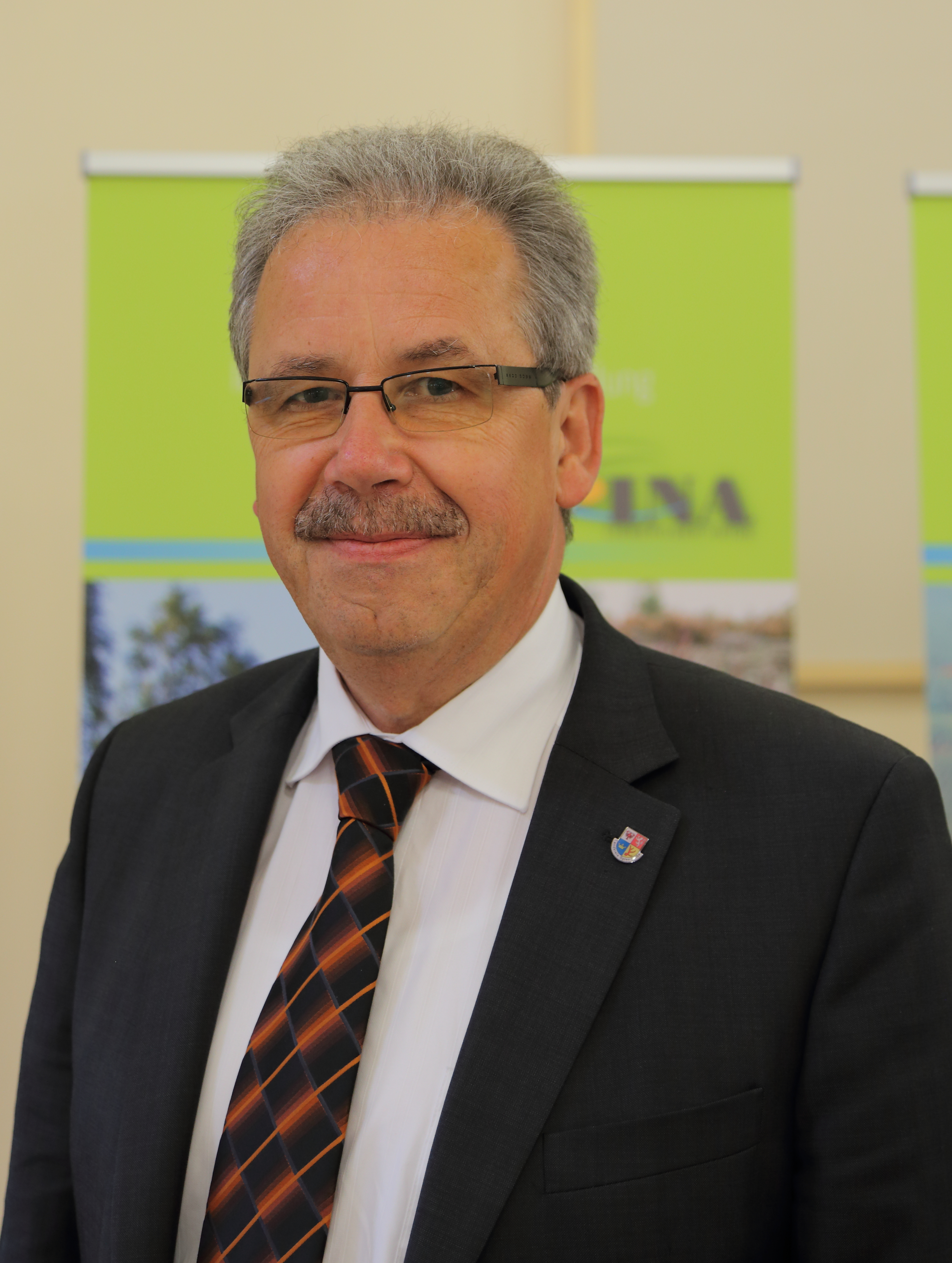 Harald Altekrüger, Landrat of the Landkreis Spree-Neiße, during a stay in Lieberose, Landkreis Dahme-Spreewald, Brandenburg, Germany.